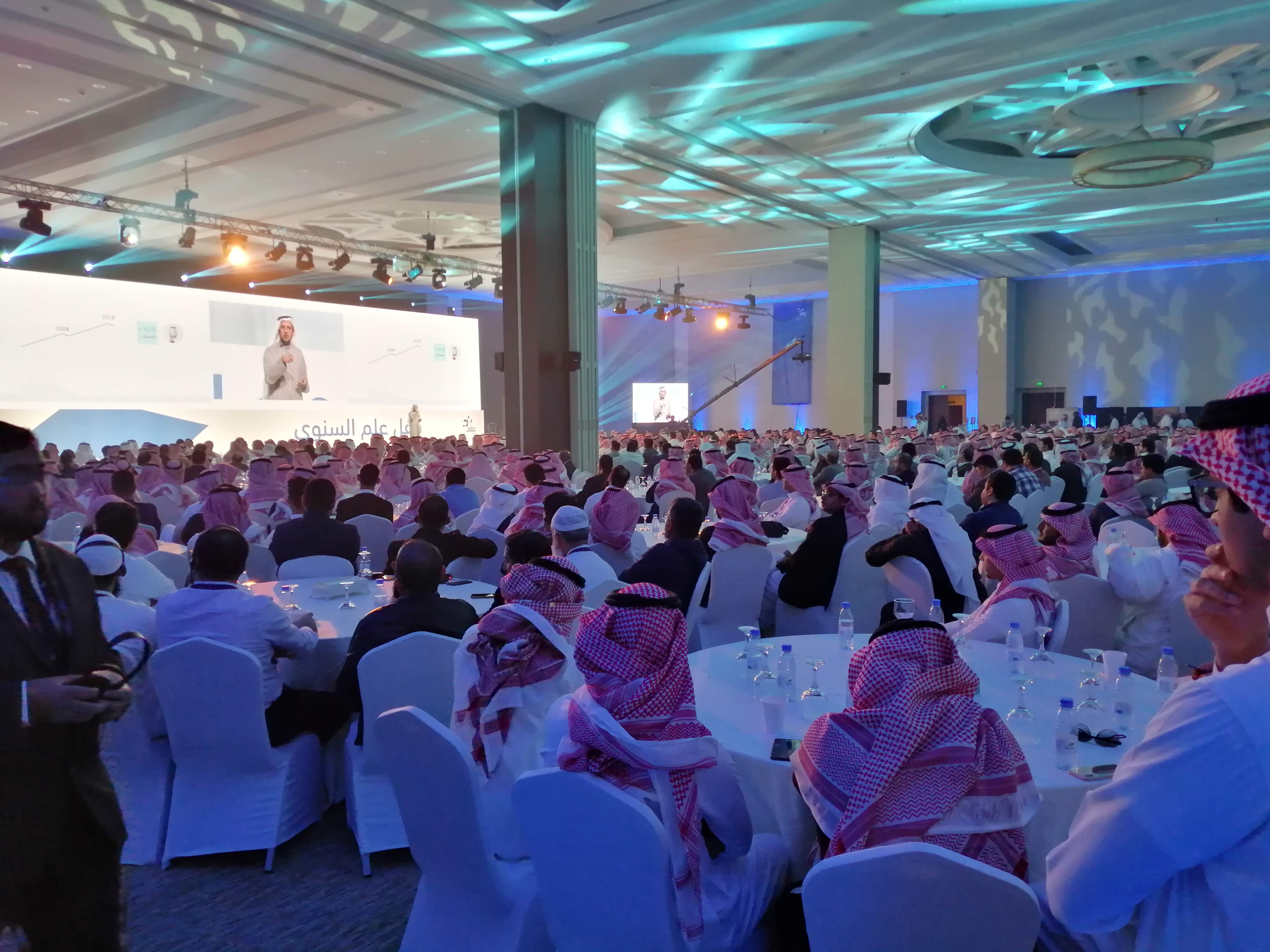 ELM, CEO Abdulrahman Al Jadhai Presentation Annual Meet 2019